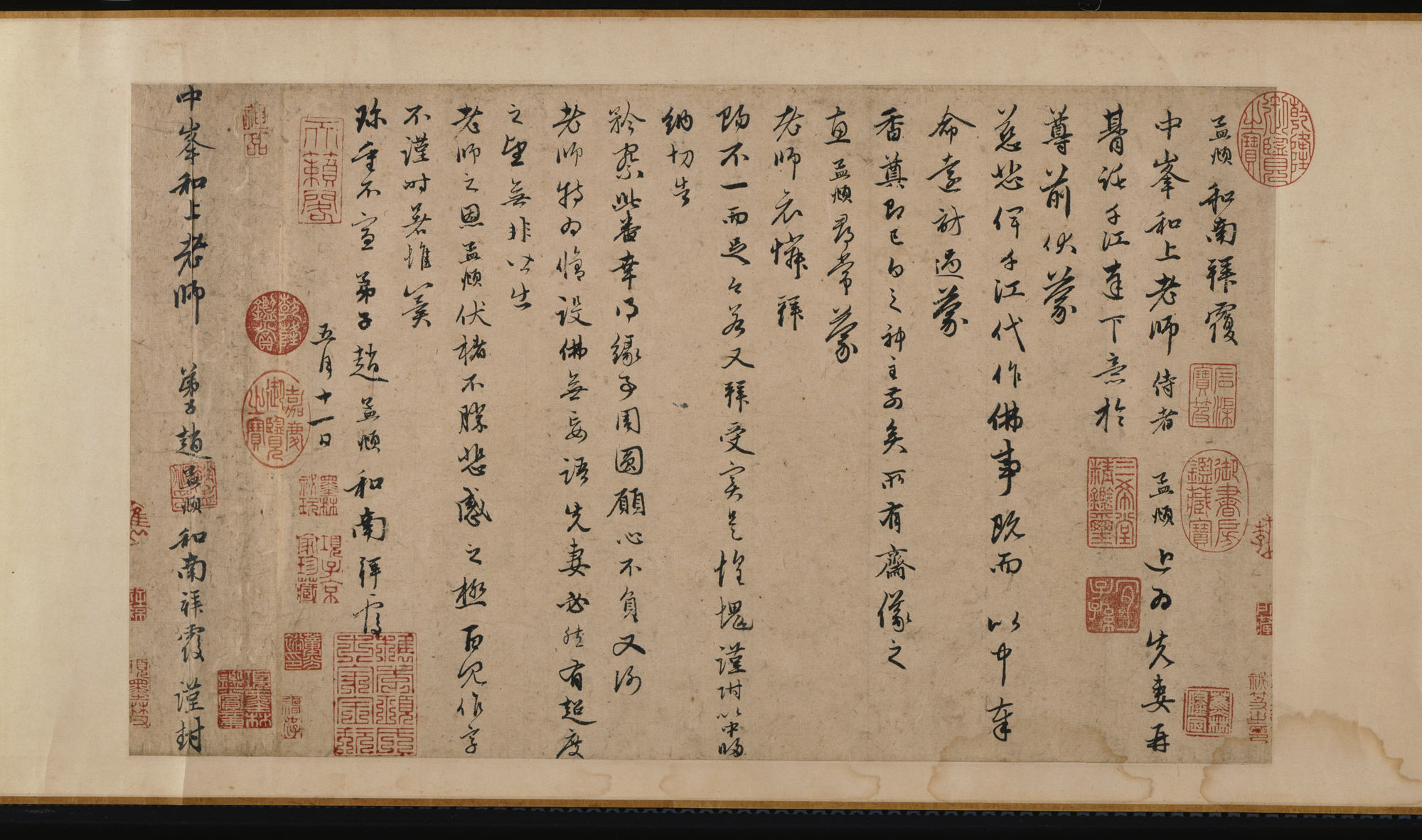 Zhao Mengfu Letter to Zhongfeng Mingben. Ink on paper, 29,5x50,2cm. Princeton University art Museum